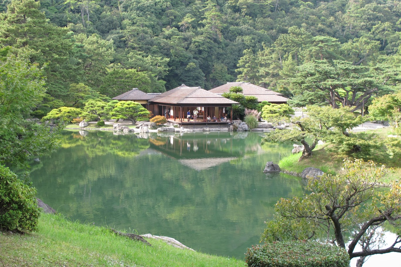 Kikugetsu-tei in Ritsurin-garden